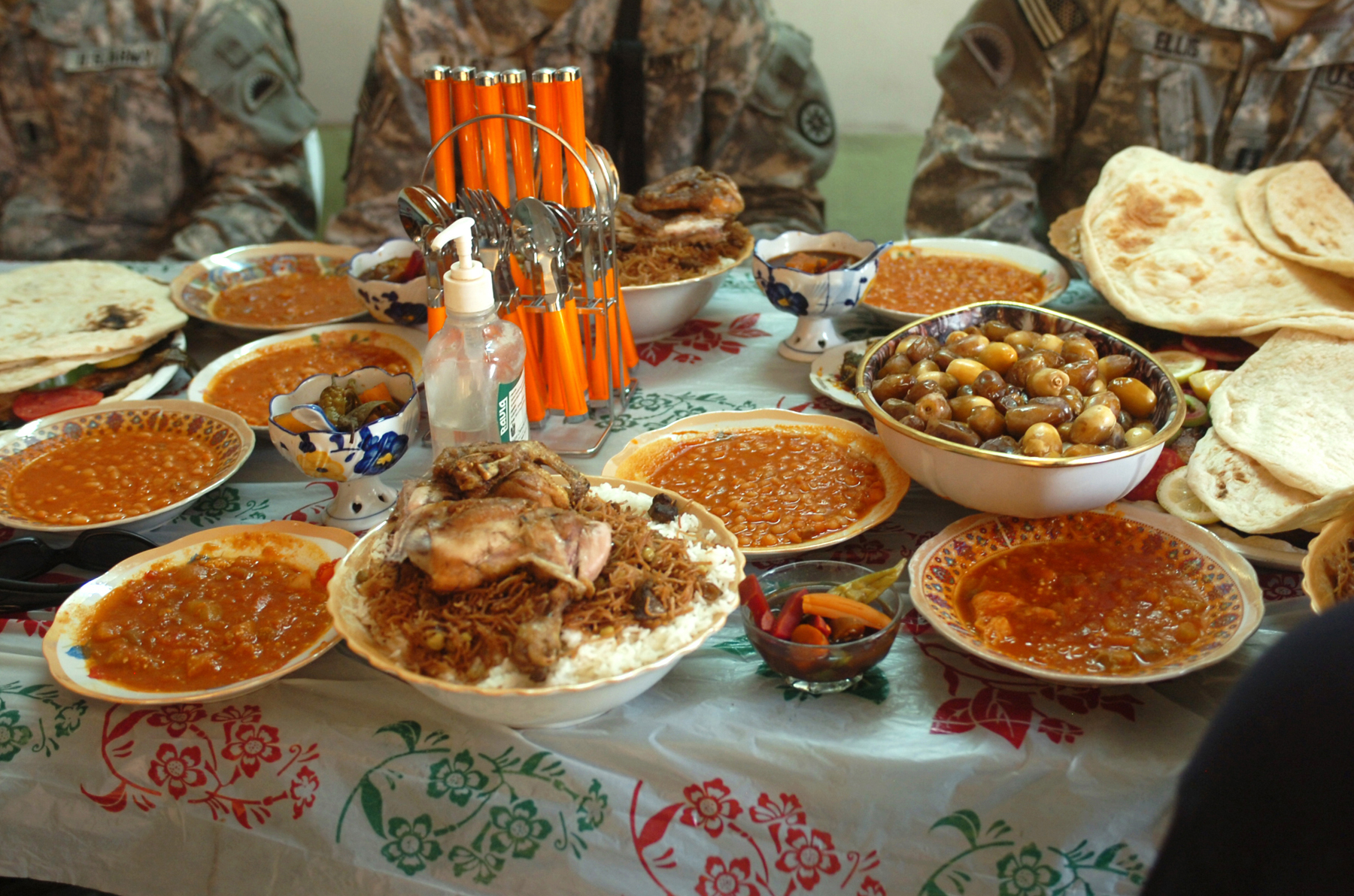 Mr. Ali Jadaan, a local contractor in Scania, Iraq, welcomes members of Alpha Company, 2-162 Infantry, Oregon Army National Guard, into his home for a pre-Ramadan feast. The feast was also an invitation for the Alpha Company, 2-162 new command to sit and have a non-business meeting. The meal consisted of chicken and rice, soups, fresh fruits and vegetables, pickled vegetables and dates.